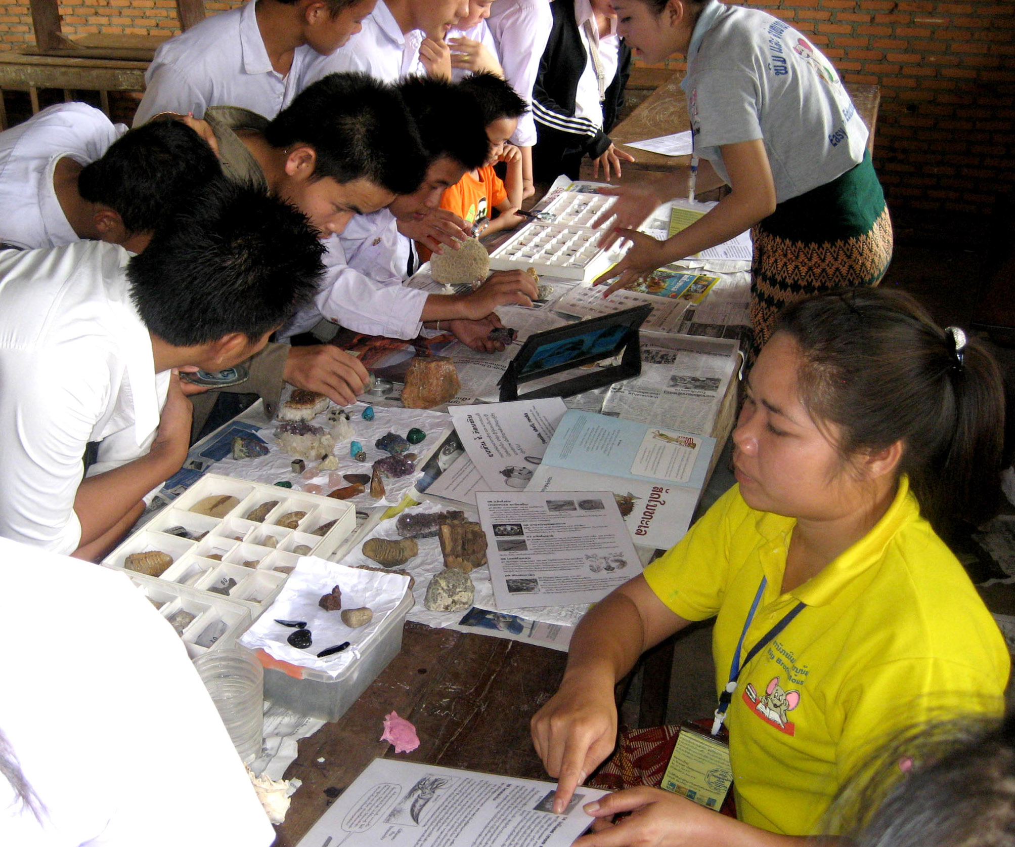 High school students in Laos examine fossils, minerals, and crystals, at a "Discovery Day," sponsored by the literacy project Big Brother Mouse. Non-rote, interactive educational opportunities are rare in Laos. The Discovery Days include more than 30 activities such as bridge-building, anatomy models, optical illusions, microscopes, and number games.